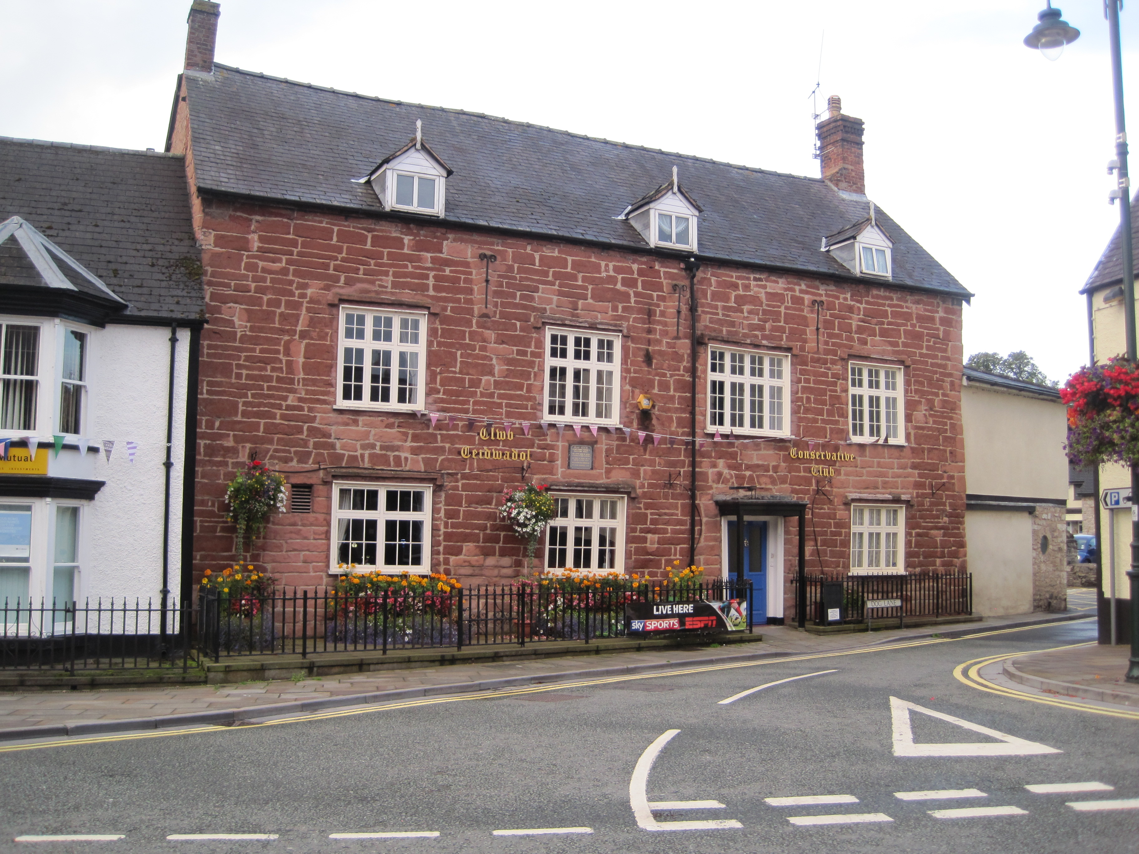 Plas Coch, Ruthin / Rhuthun, Denbighshire. Now used as a Conservative Club.